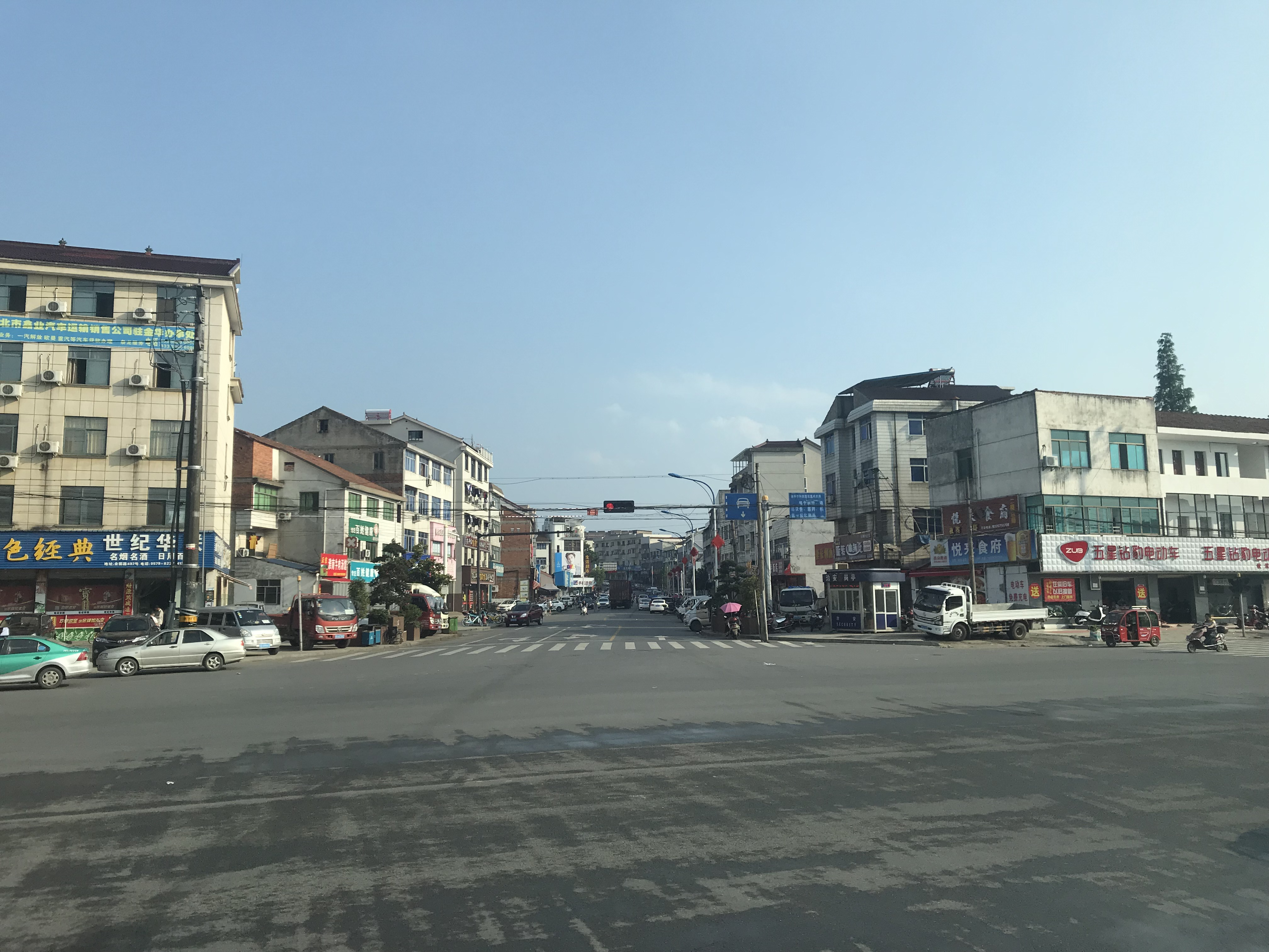 201805 Zhujitou Village, where the name of this village can be found on lots of electric tricycles all around the country.